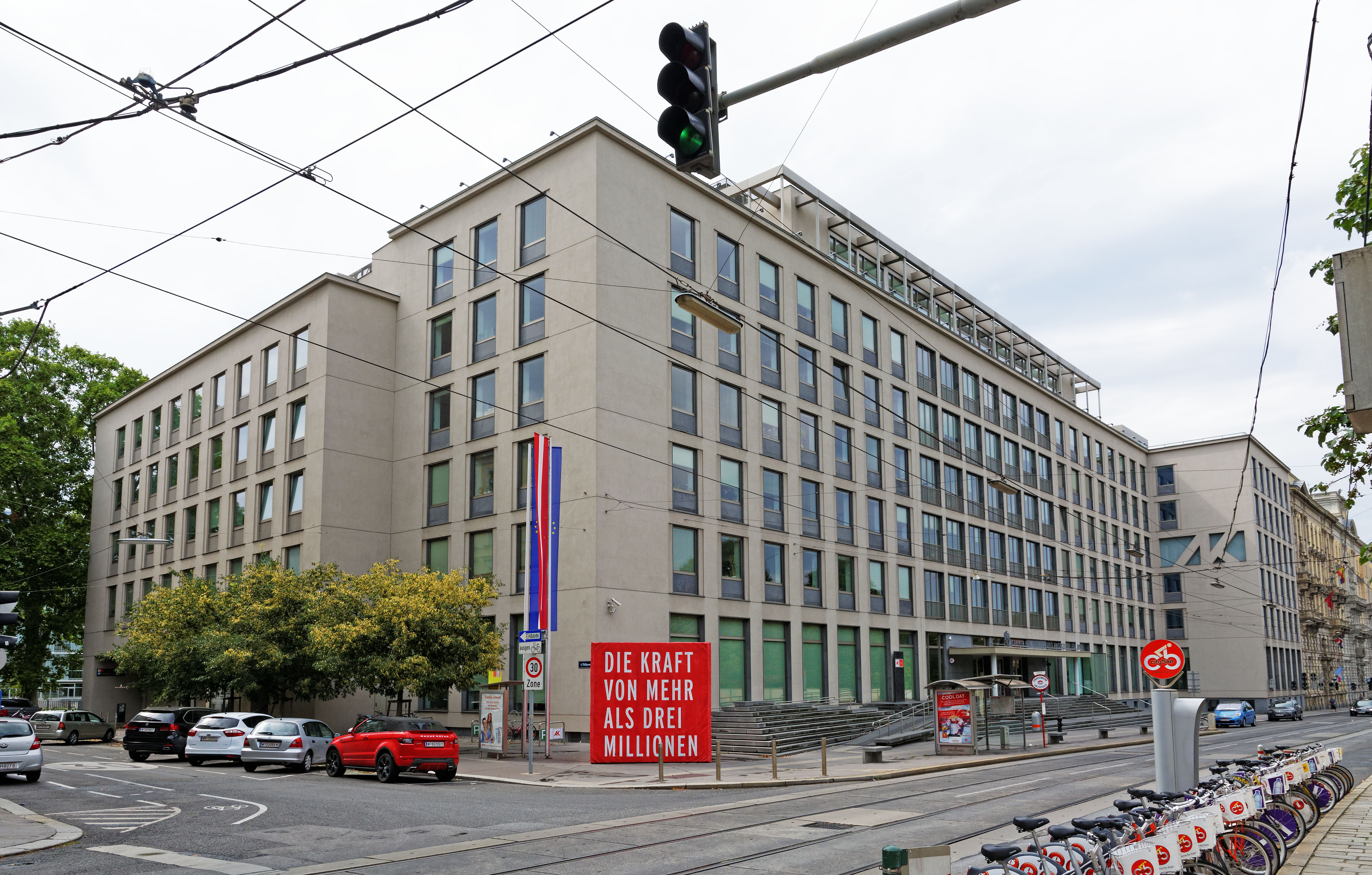 Headquater of the Austrian Chamber of Labour in Wieden, Vienna, Austria